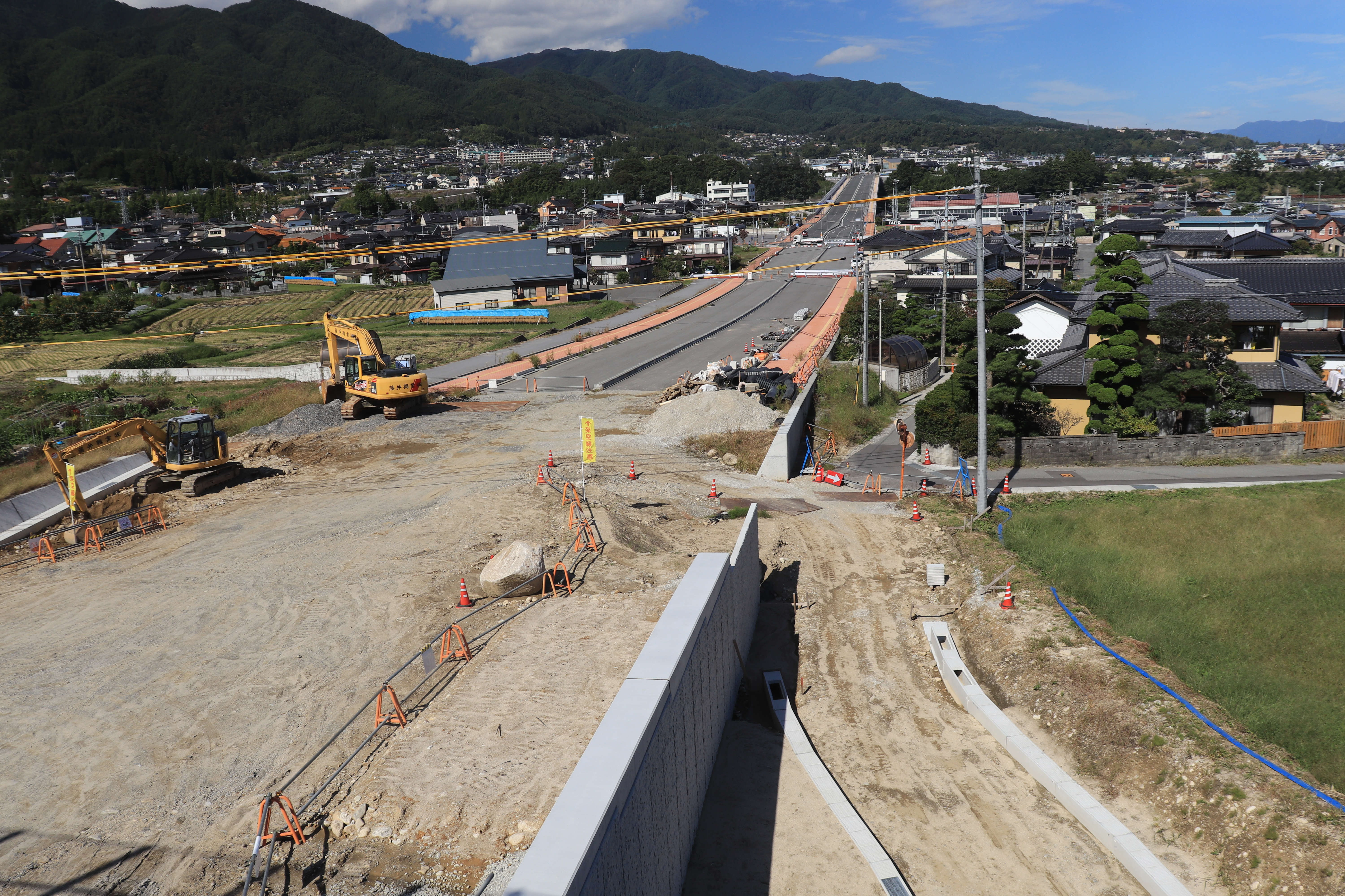 Nagano Prefectural Road Route 15 under construction in Kanaeishikiri, Iida, Nagano Prefecture, Japan.